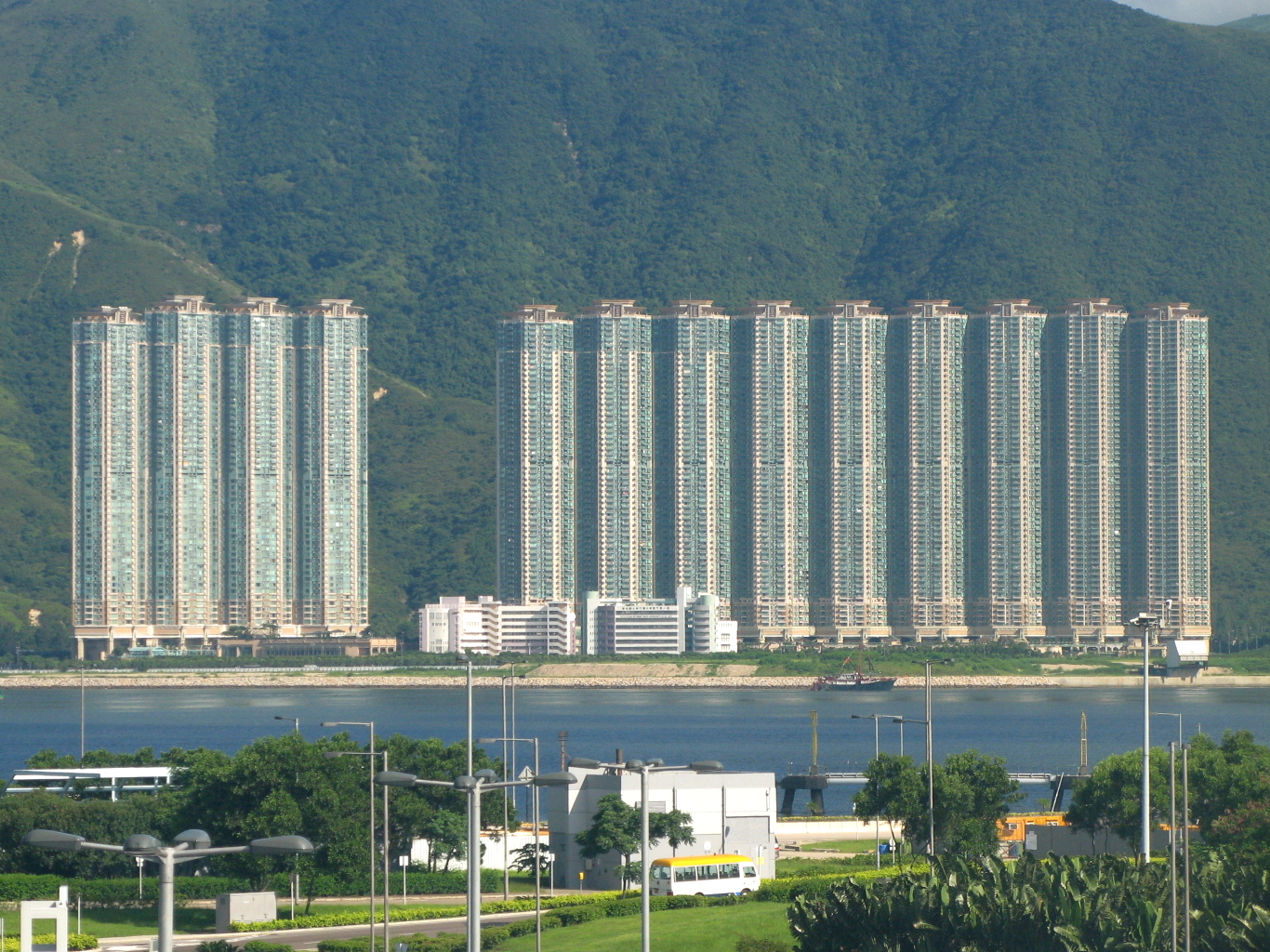 HK Caribbean Coast 香港東涌 映灣園